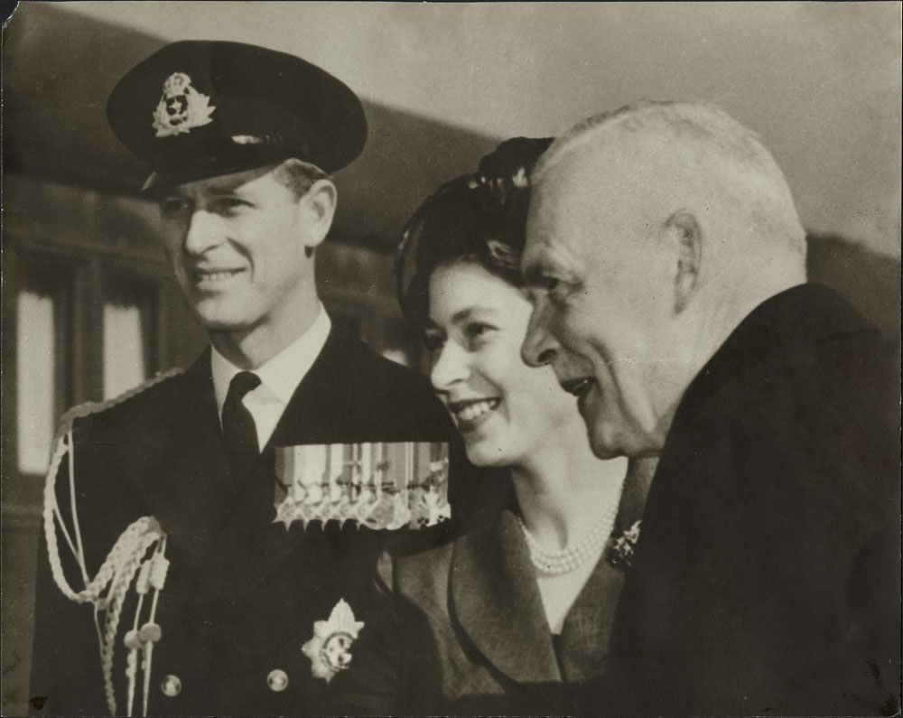 Princess Elizabeth, Prince Philip and Prime Minister Louis St. Laurent, ca. 1951